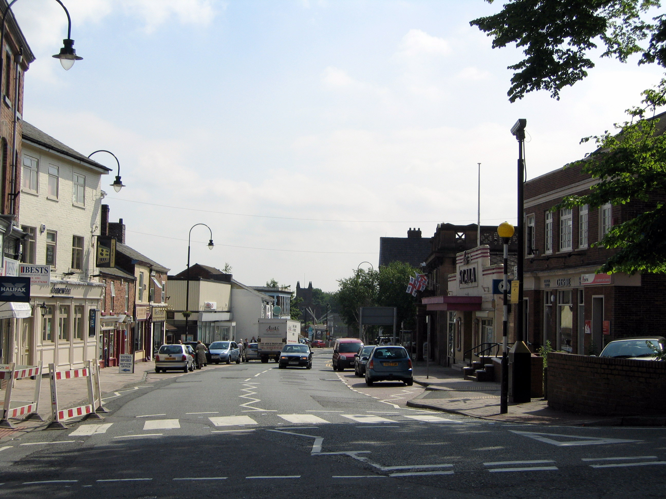 Photograph taken by me on 14 June 2006.